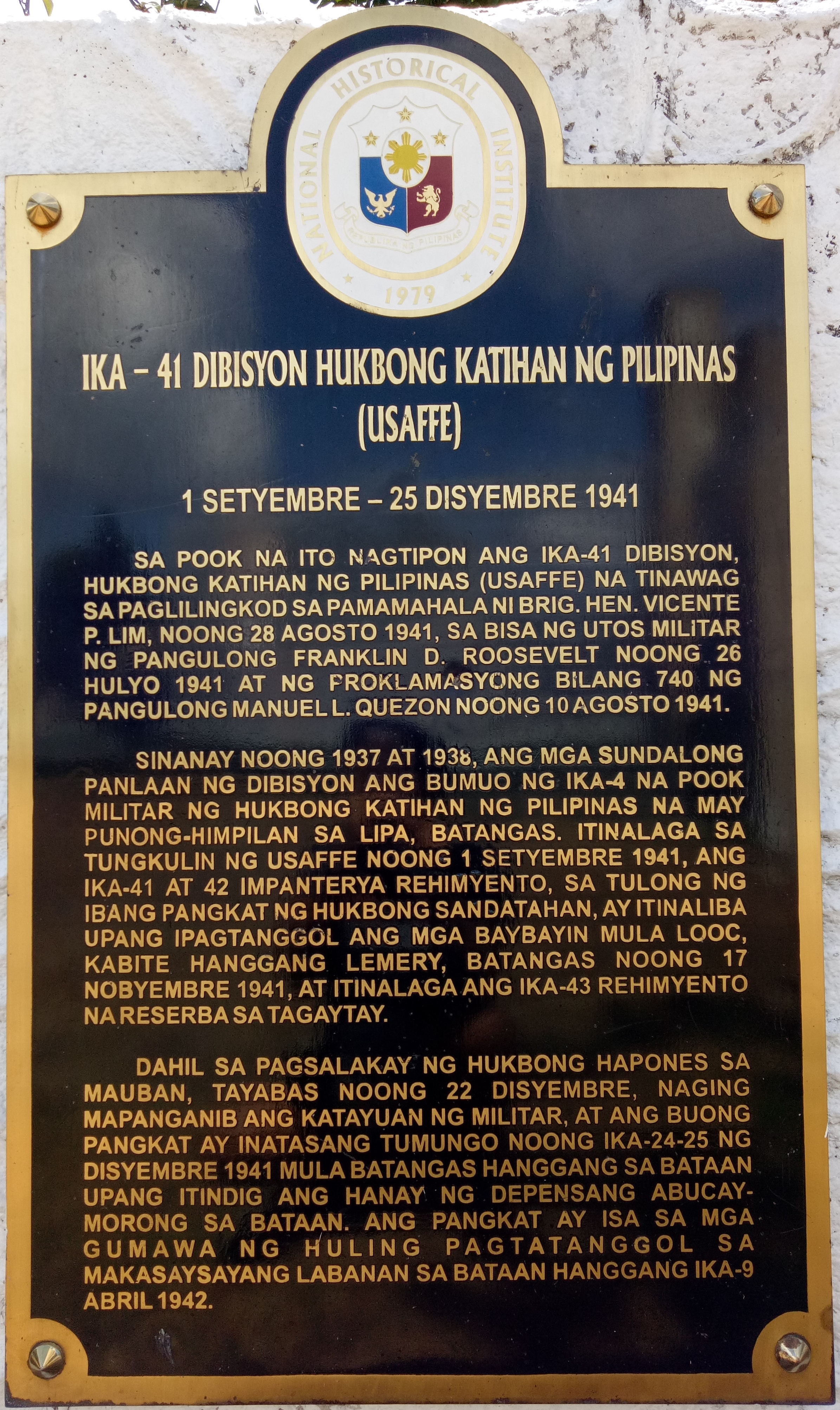 National Historical Institute marker of the 41st Division Philippine Army USAFFE at the 41st Division Philippine Army USAFFE Shrine in Tagaytay City, Philippines